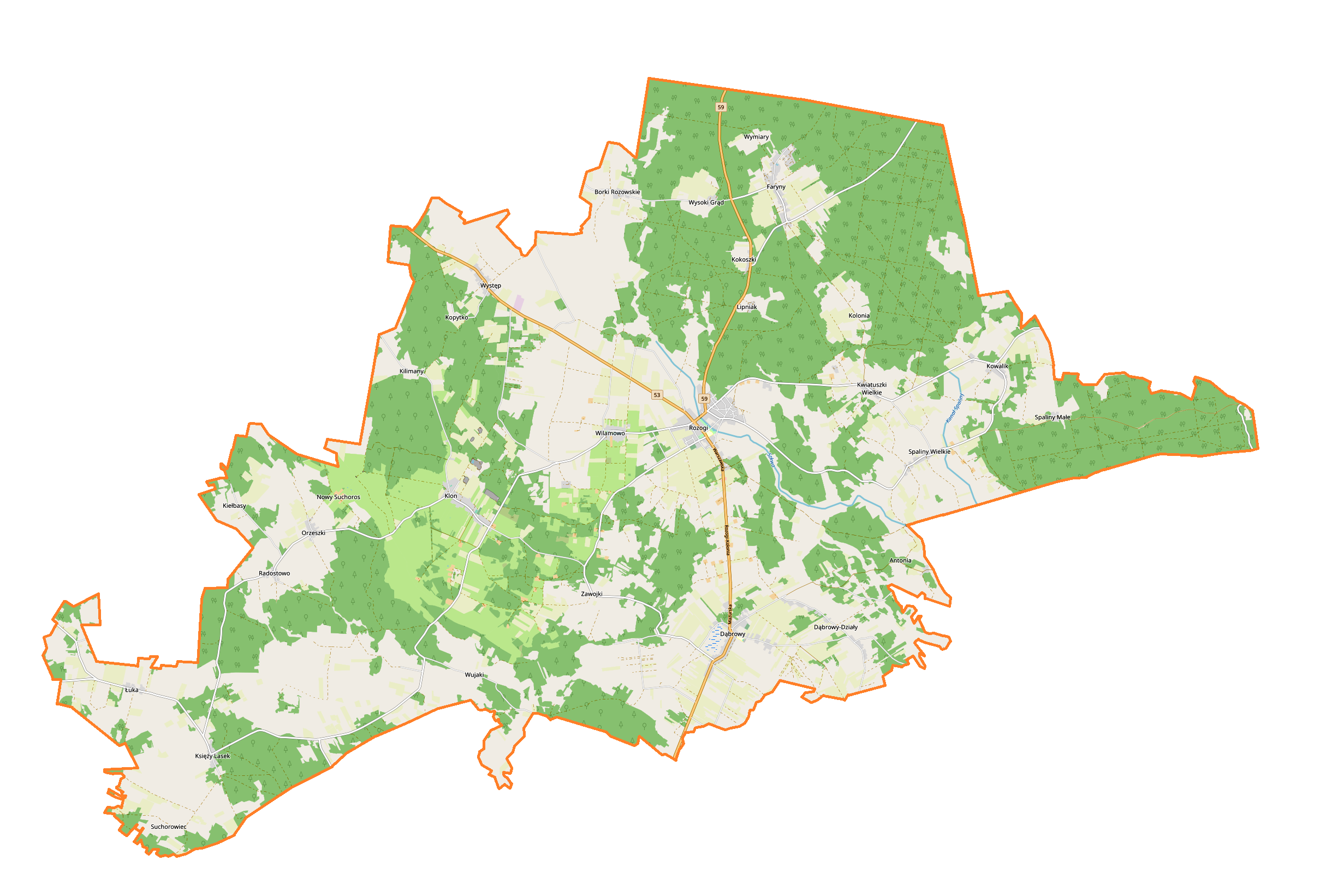 Location map